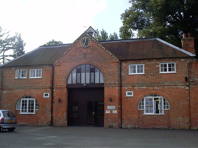 The Coach House The Coach House at Foxlease near Lyndhurst in the New Forest. Used as residential accommodation at this Girlguiding UK Training and Activity Centre.